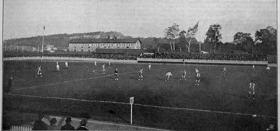 Walhalla IP stadium on 11 October 1908 during the Svenska Mästerskapet final between IFK Göteborg and IFK Uppsala. Photo taken from the main stand.